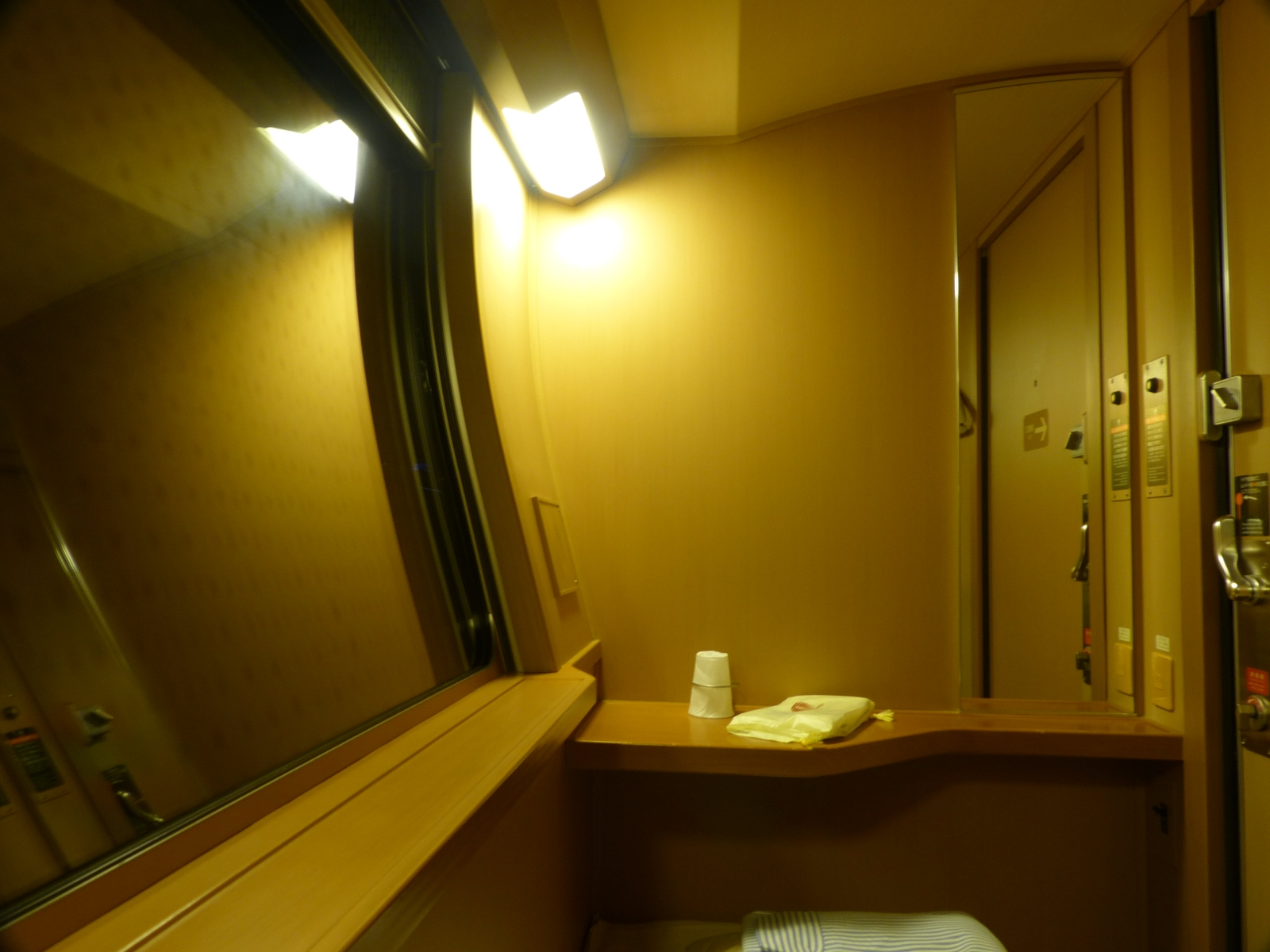 JR西日本285系電車。クハネ285-3(I2編成) 2階シングル。